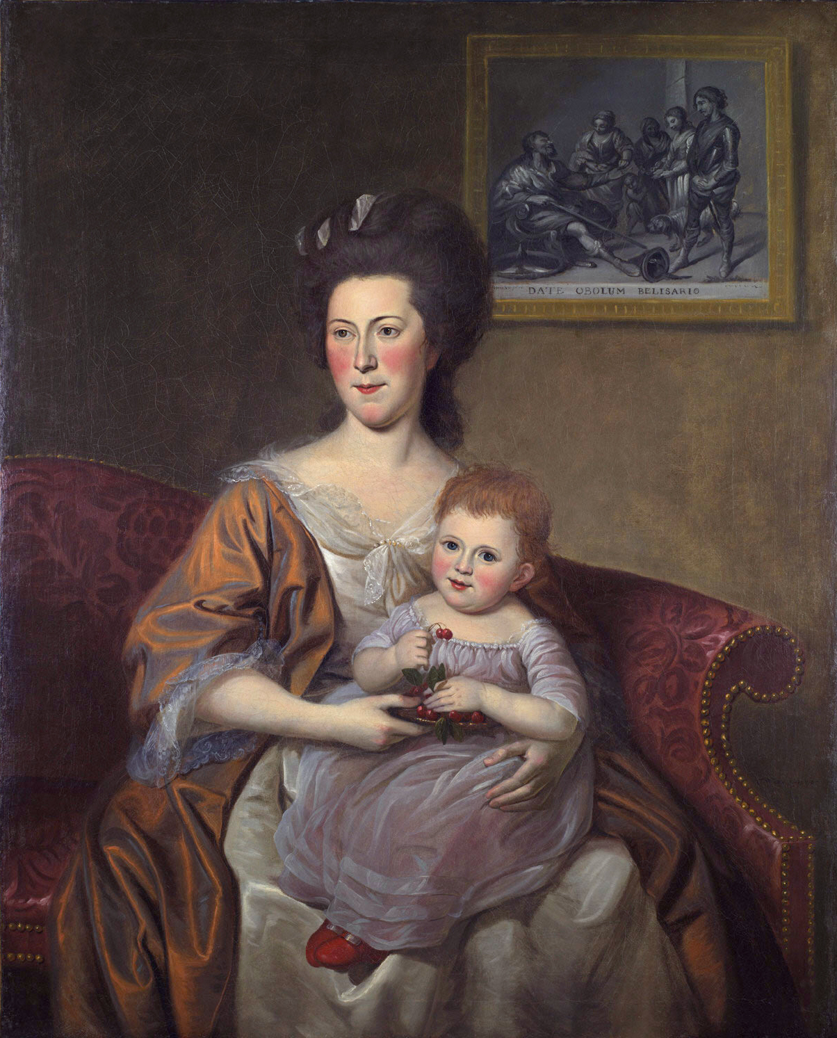 Mrs. Thomas McKean (Sarah Armitage) and her daughter, Maria Louisa oil on canvas 128.3 x 103 cm